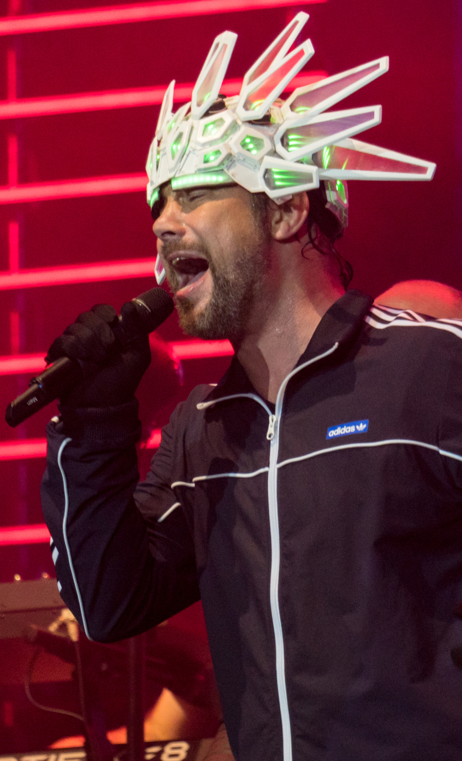 Jay Kay performing with Jamiroquai at the O2